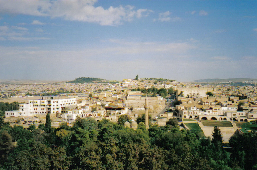 Skyline of Urfa in South Eastern Turkey, as viewed from the ramparts of the Castle in a hill in the City Centre. (C)Gerry Lynch, 2003.